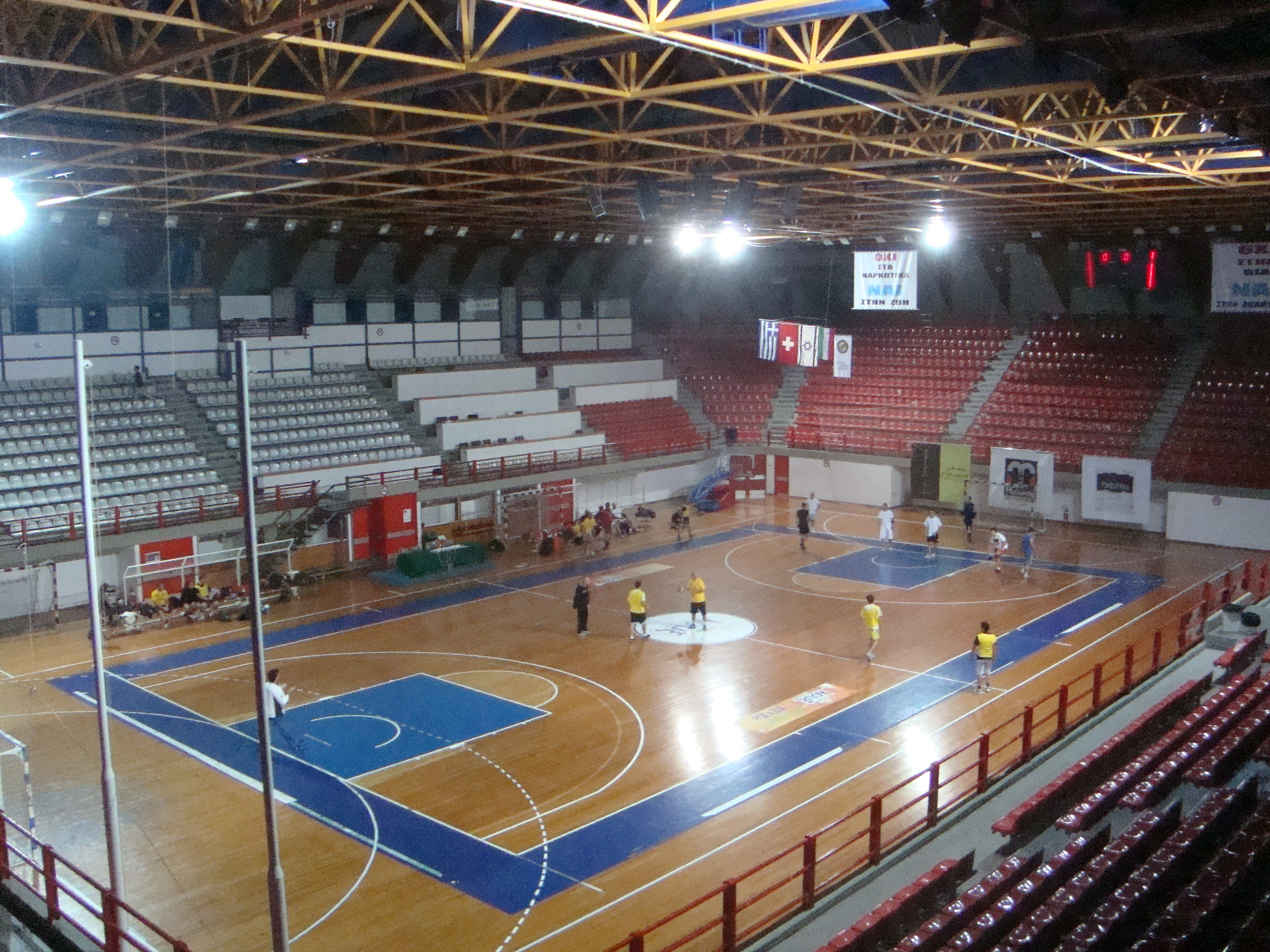 Patras nasional idoor hall "Olympic metalist Dimitrios Tofalos"